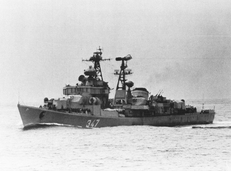 A Soviet navy project 56 Spokoynyy-class (NATO reporting code: "Kotlin"-class) destroyer underway in the Mediterranean Sea, circa in 1973.